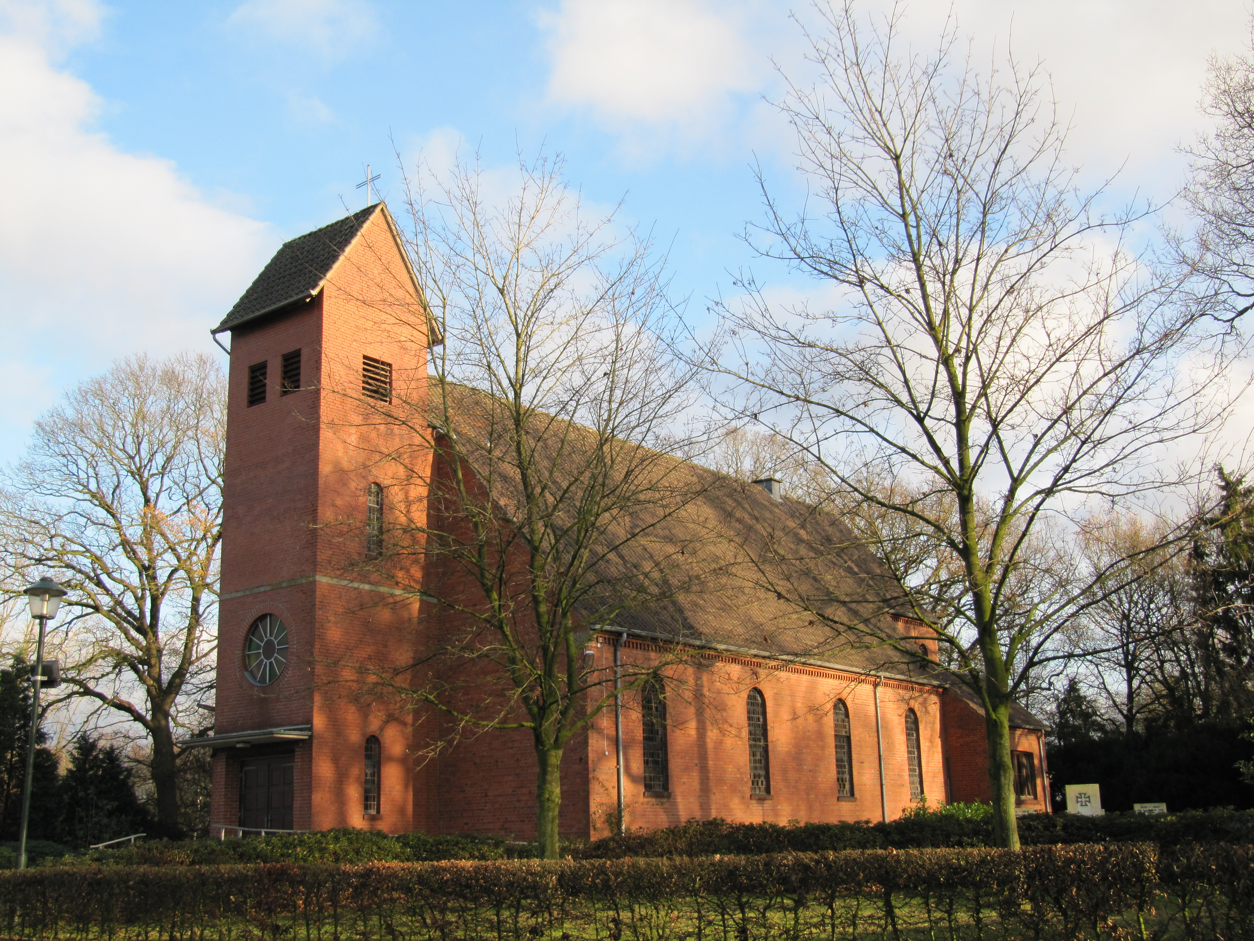 Catholic church St. Marien in Twist (Germany) district Adorf